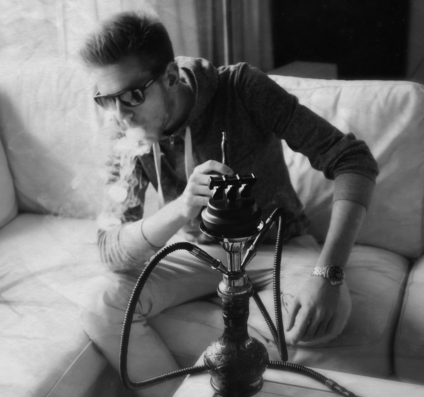 This image is released under Creative Commons. If used, please attribute a DOFOLLOW link to and not to our Flickr page. ' So this was actually my first time I have ever used an actual e-hookah and not one of those small e-shisha pens! Great stuff, enjoyed it. Highly recommend checking out our review on it on the following link:777 E-Hookah Review